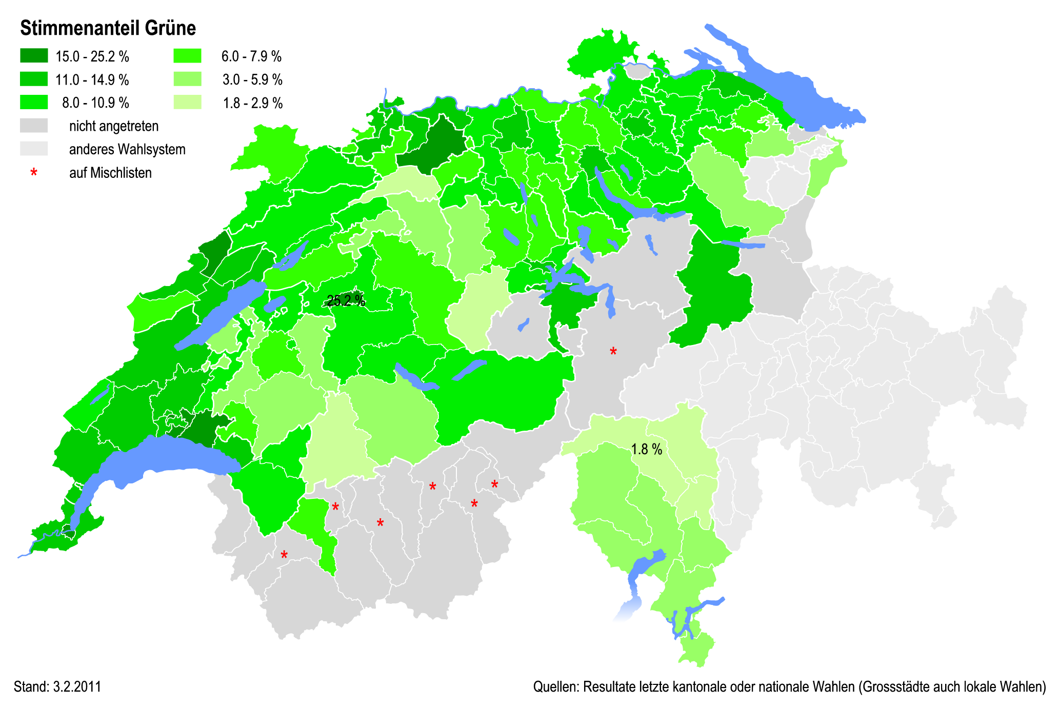 Geographical overview on the votes share of the Green Party of Switzerland in the districts.